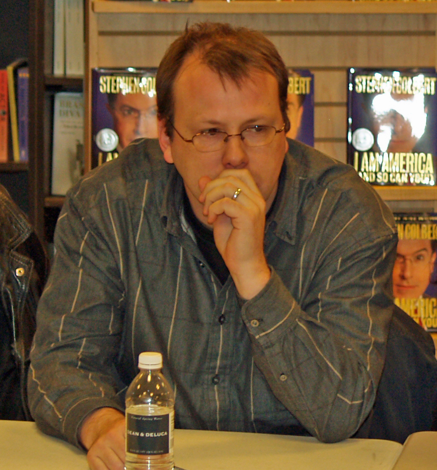 Rich Dahm by David Shankbone